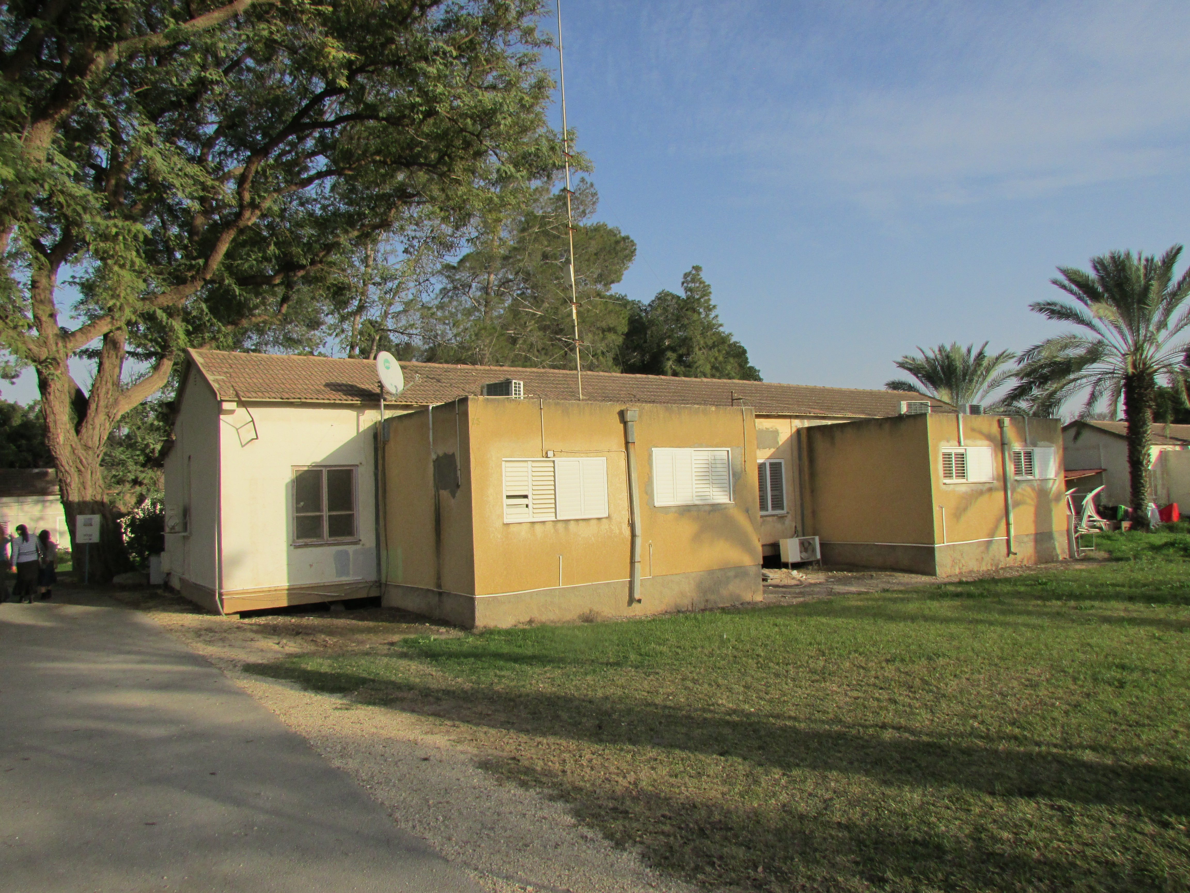 Tirat Tzvi. A house with added fortified rooms.